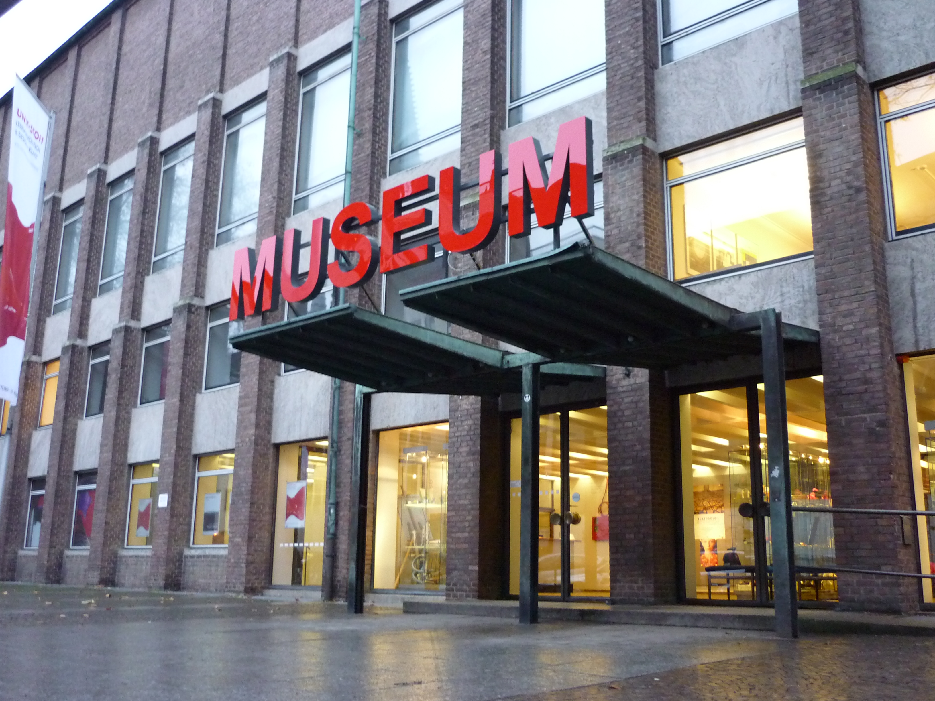 New lightsign for the "Museum für angewandte Kunst" in Cologne - Museum für angewandte Kunst, Köln. (Museum of applied arts, Cologne, Germany)